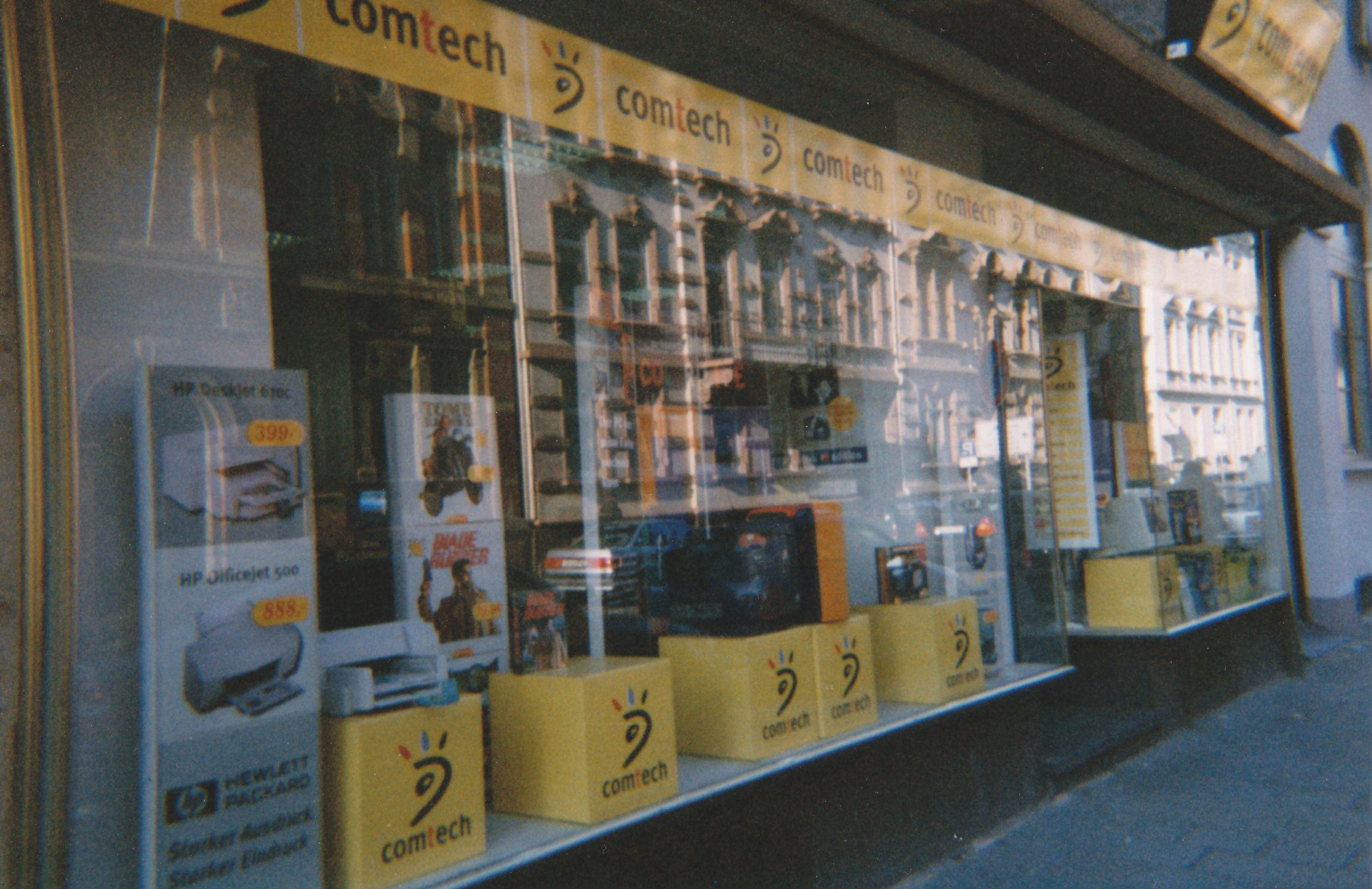 Comtech store in Germany